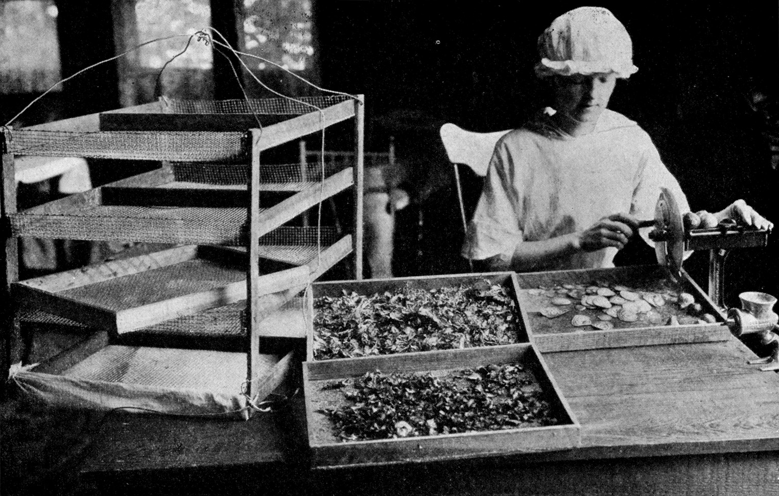 SLICING BEETS. The trays are filled with Swiss chard and sliced beets. Both trays and drier itself are made of lath and wire netting.